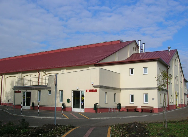 Gyöngyös